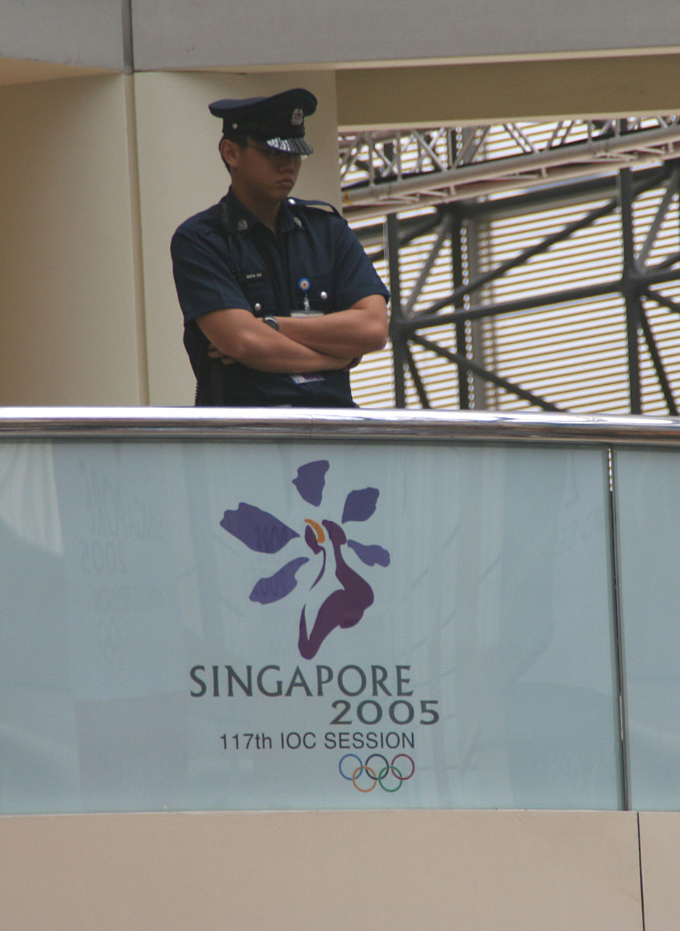 A police officer stands watch outside the Raffles City Convention Centre where the 117th IOC session is taking place.